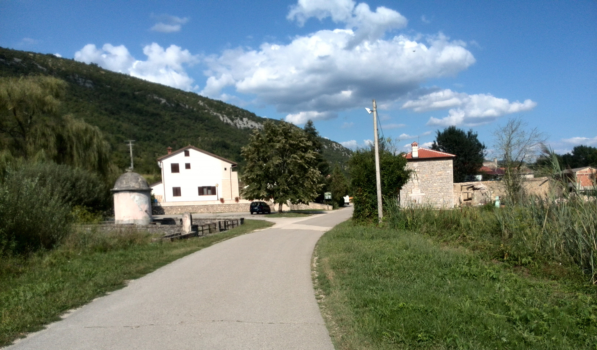 Gradinje (Cerovlje, Istra)